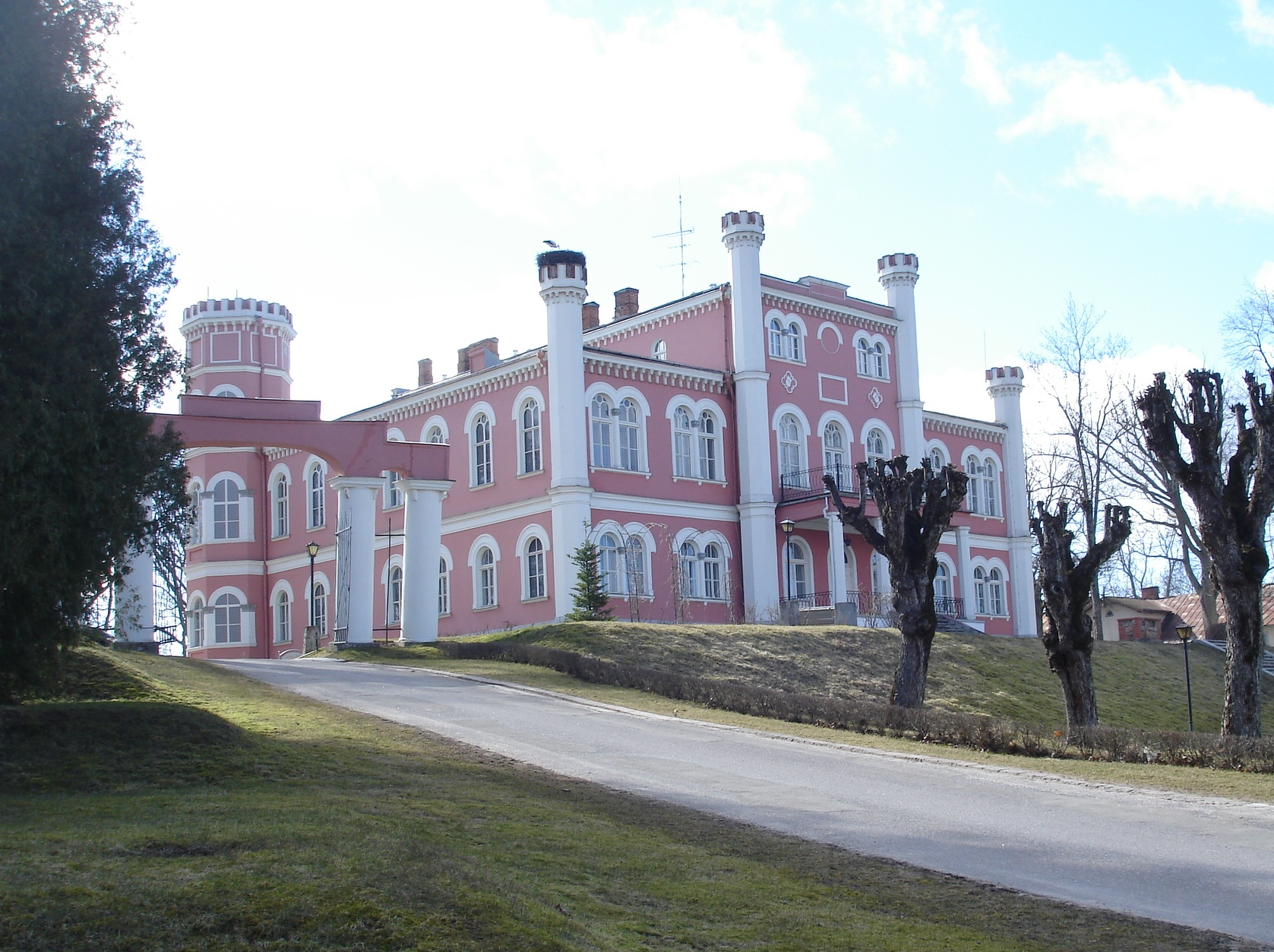 Birini castle